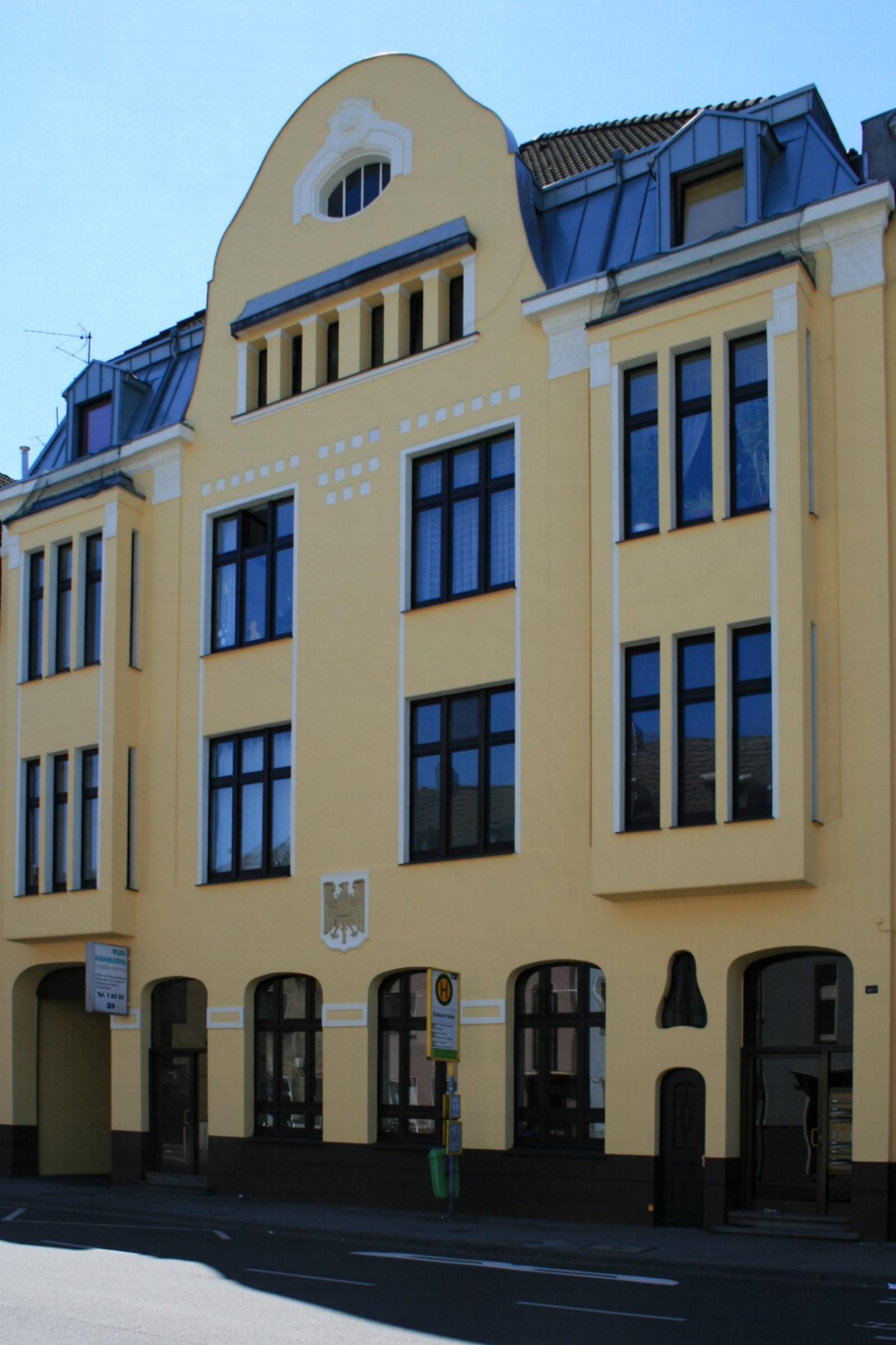 Cultural heritage monument No. E 015 in Mönchengladbach